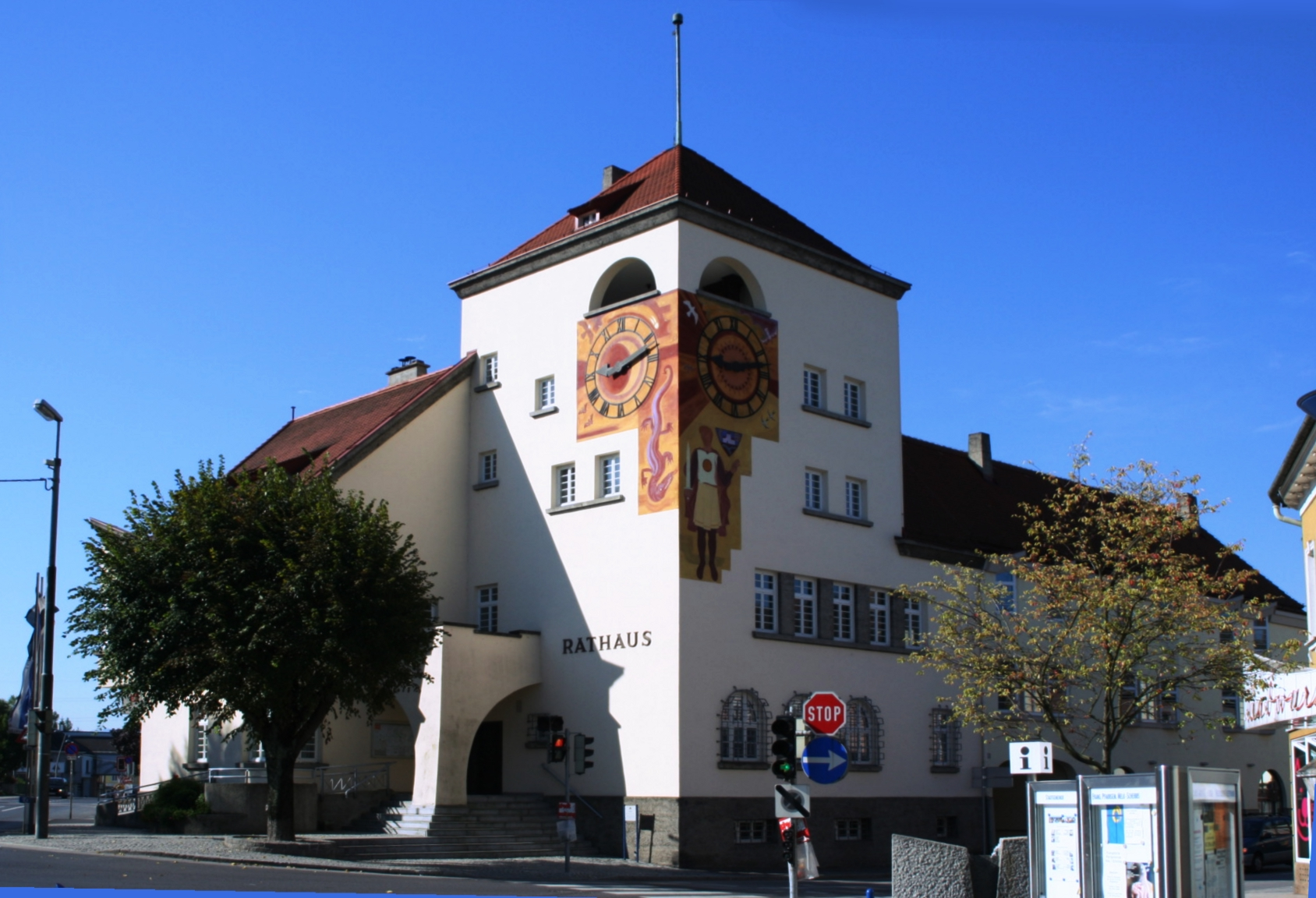 the city hall of wieselburg